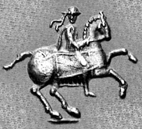 Antimachos II on horse